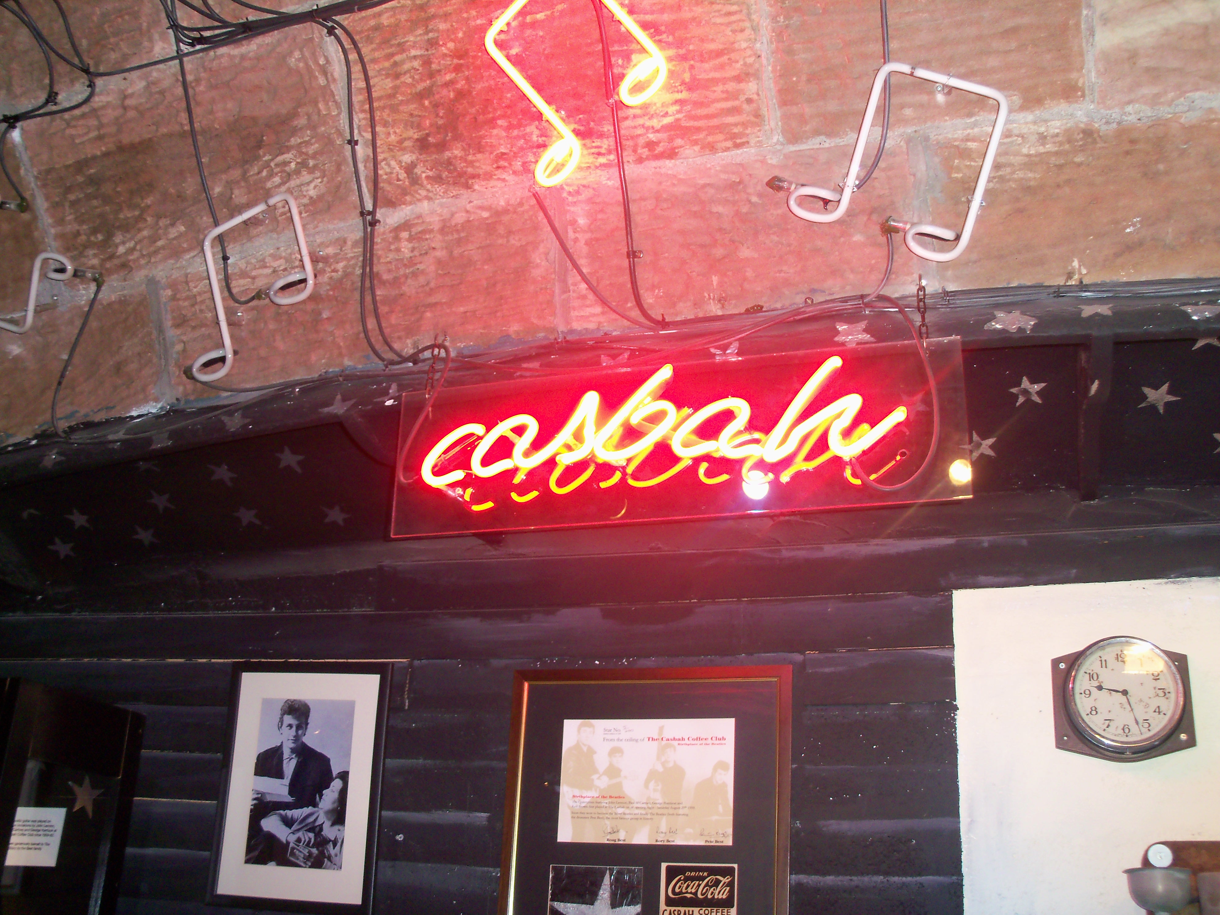 Another club where the boys started out.